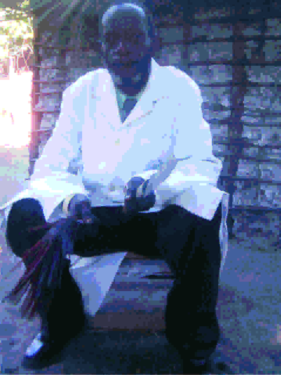 Chief Mwene Lindeho Kalipa is the 4th in the Mwene lindeho Dynasty